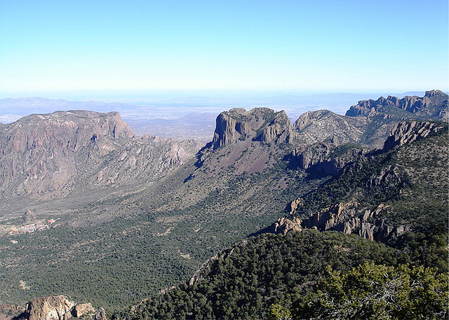 View of Casa Grande from Emory Peak's summit, the highest point in Big Bend National Park.